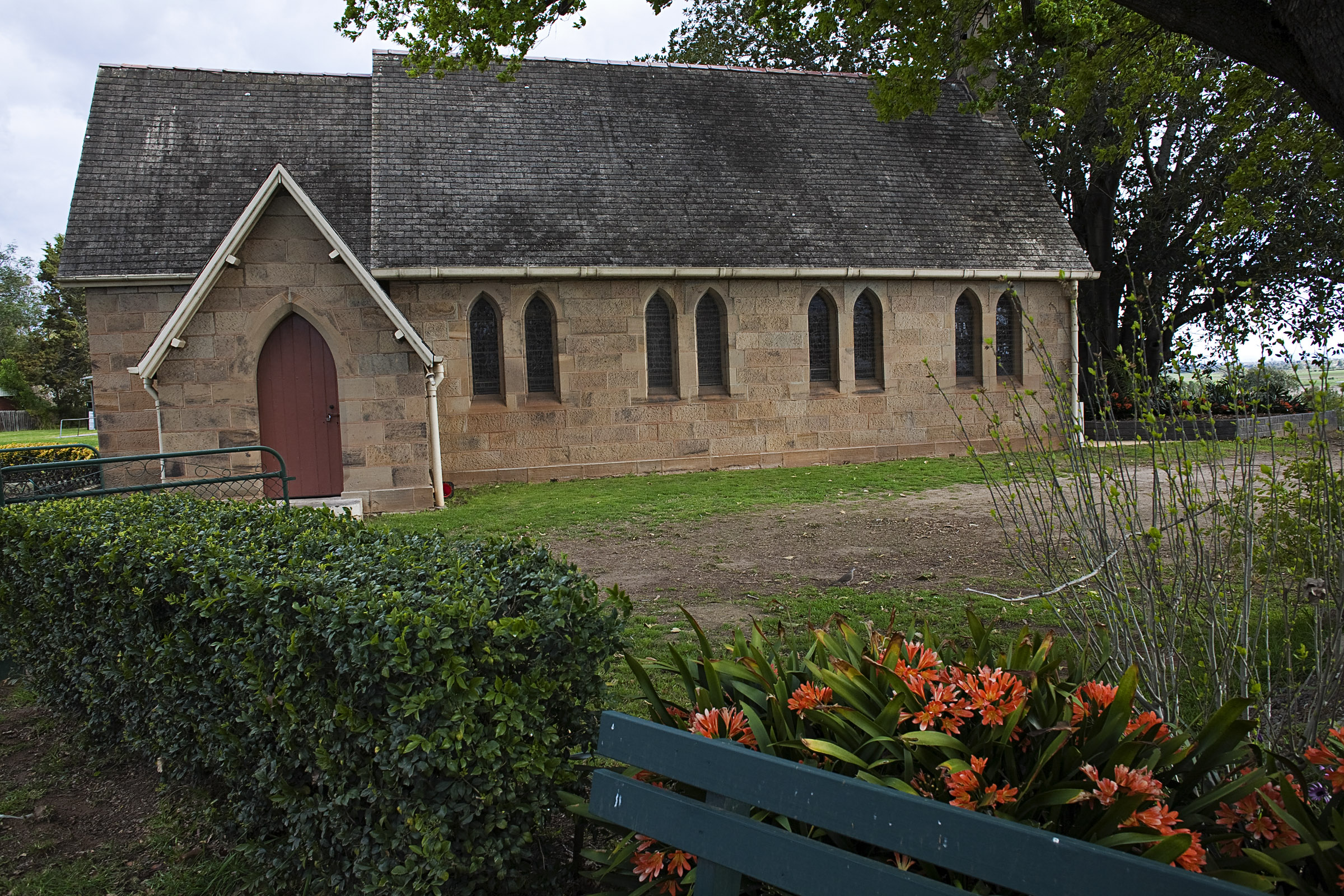 St James Anglican church, Pitt Town, NSW, Australia.